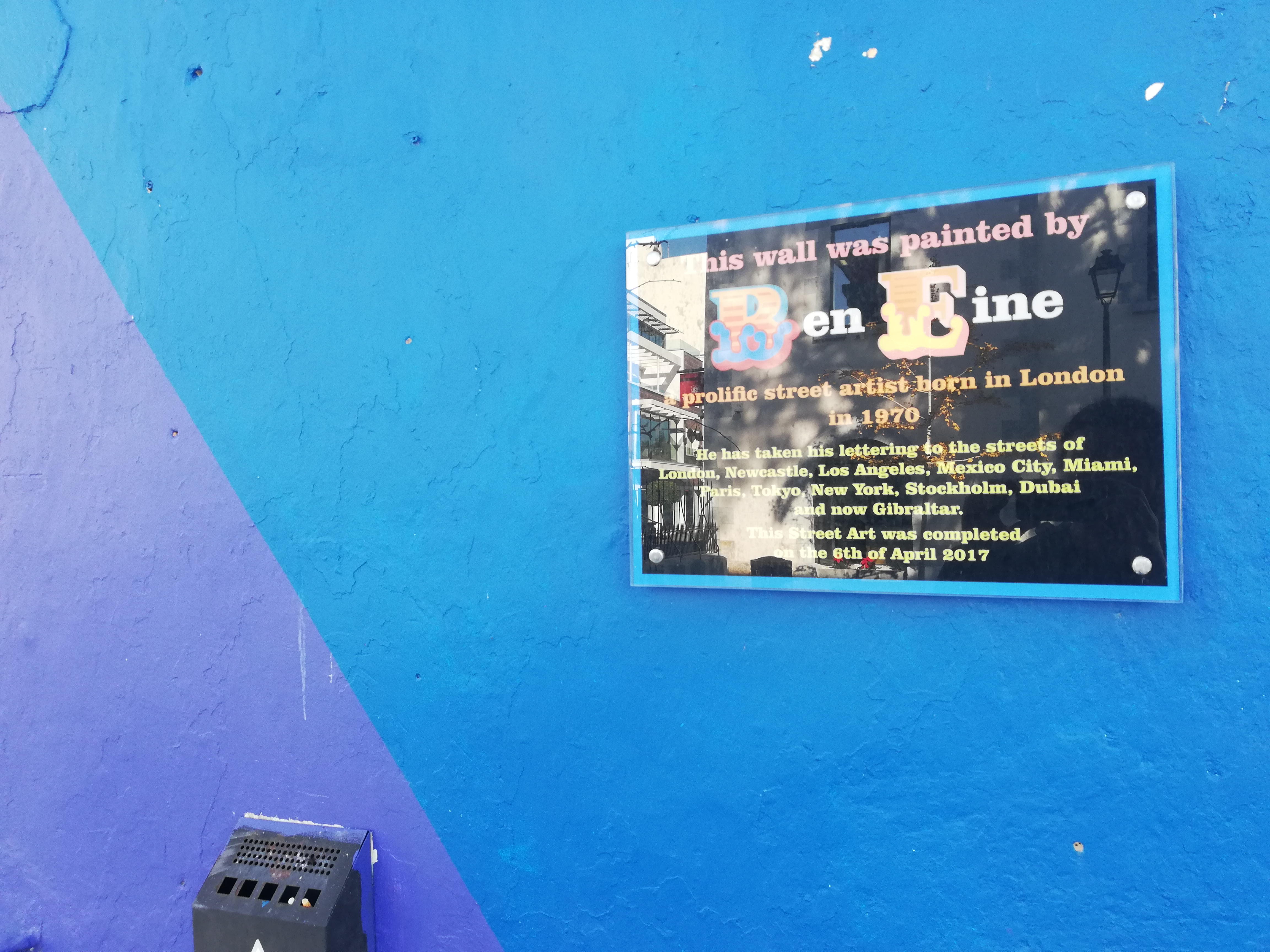 Info Badge about Mural by Ben Eine in Gibraltar City